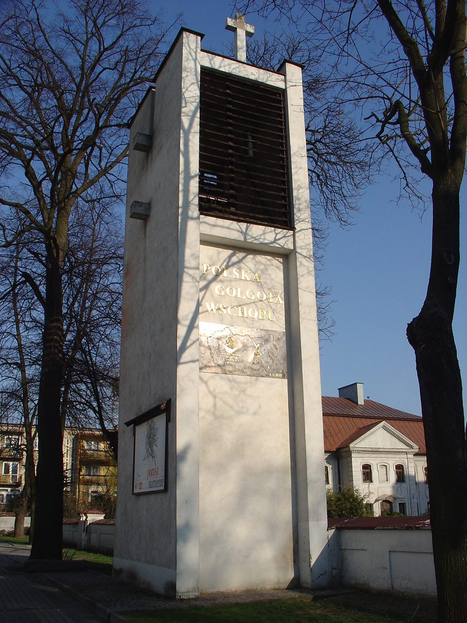 Church of Stanislaus of Szczepanów in Siedlce; Bell towers